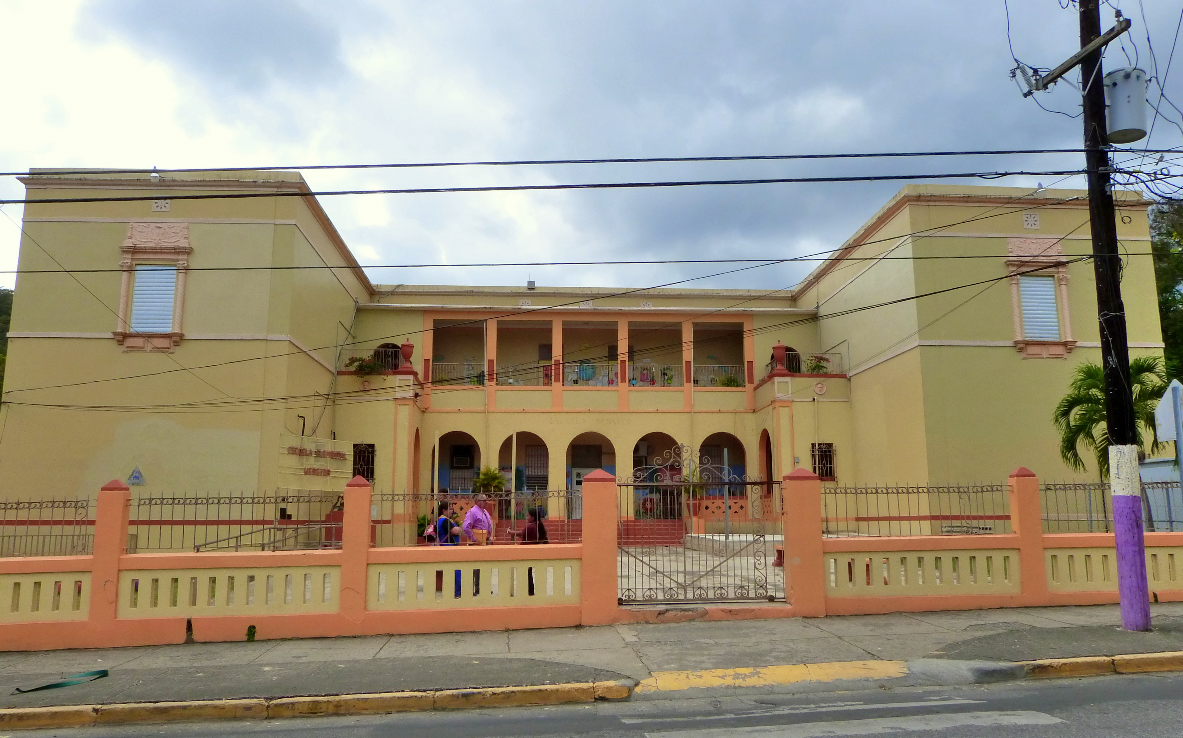 The historic Escuela Daniel Webster (built 1927), located at Calle Luis Muñoz Rivera #255 in Peñuelas, Puerto Rico, is listed on the U.S. National Register of Historic Places.